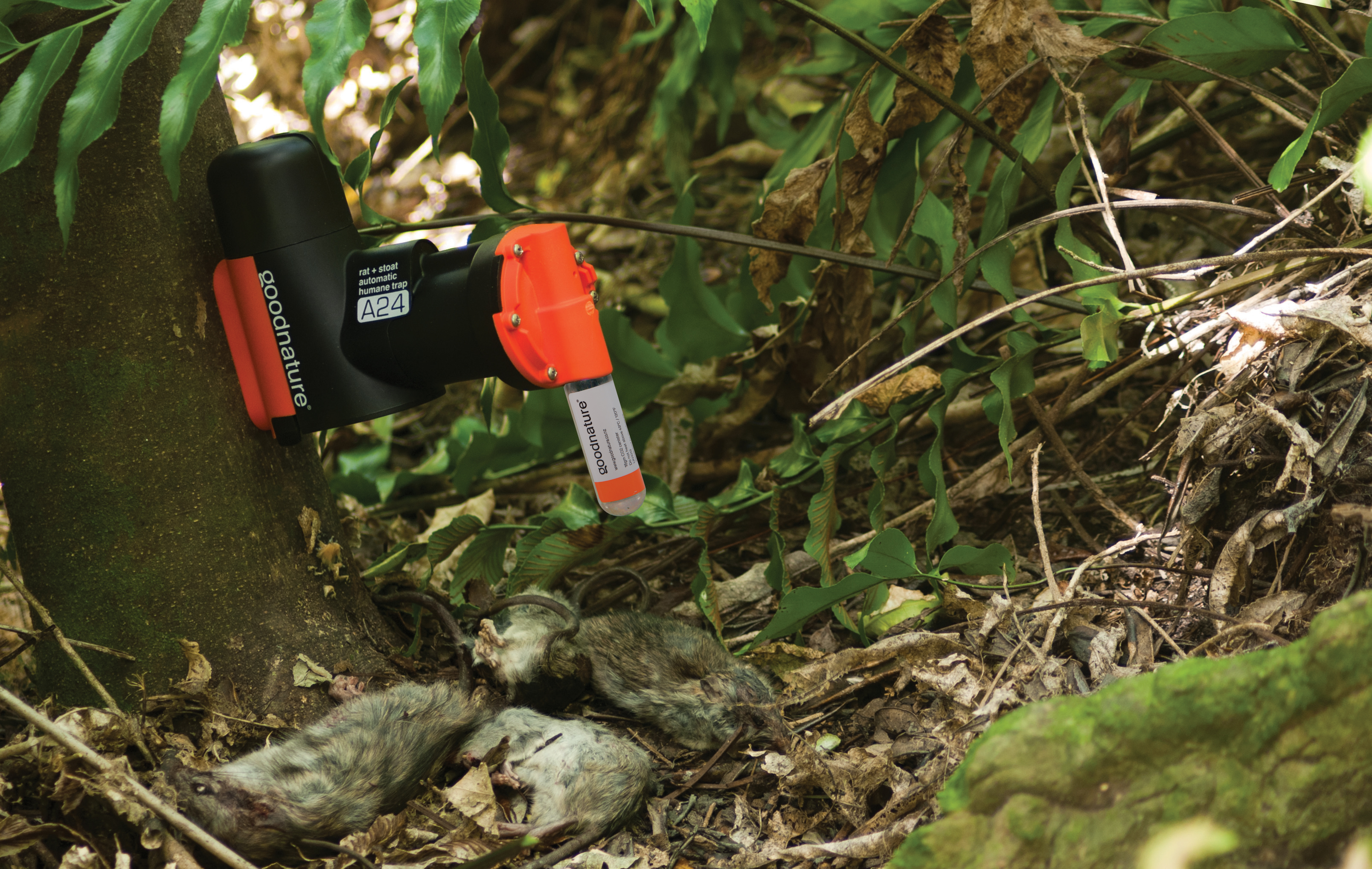 Self-resetting: The Goodnature A24 is powered by a CO2 cannister and has a steel-cored, polymer piston that, once triggered, strikes the skull of the rat, mice or stoat killing it instantly